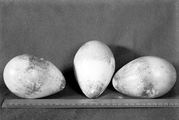 Emperor Penguin eggs, collected in July 1911 by Apsley Cherry-Garrard, Edward Wilson and Henry Bowers at Cap Crozier on the Terra Nova Expedition (1910-1913)